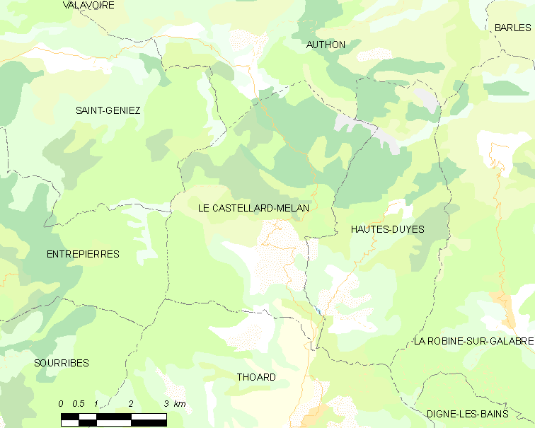 Map commune FR insee code 04040.png Légende